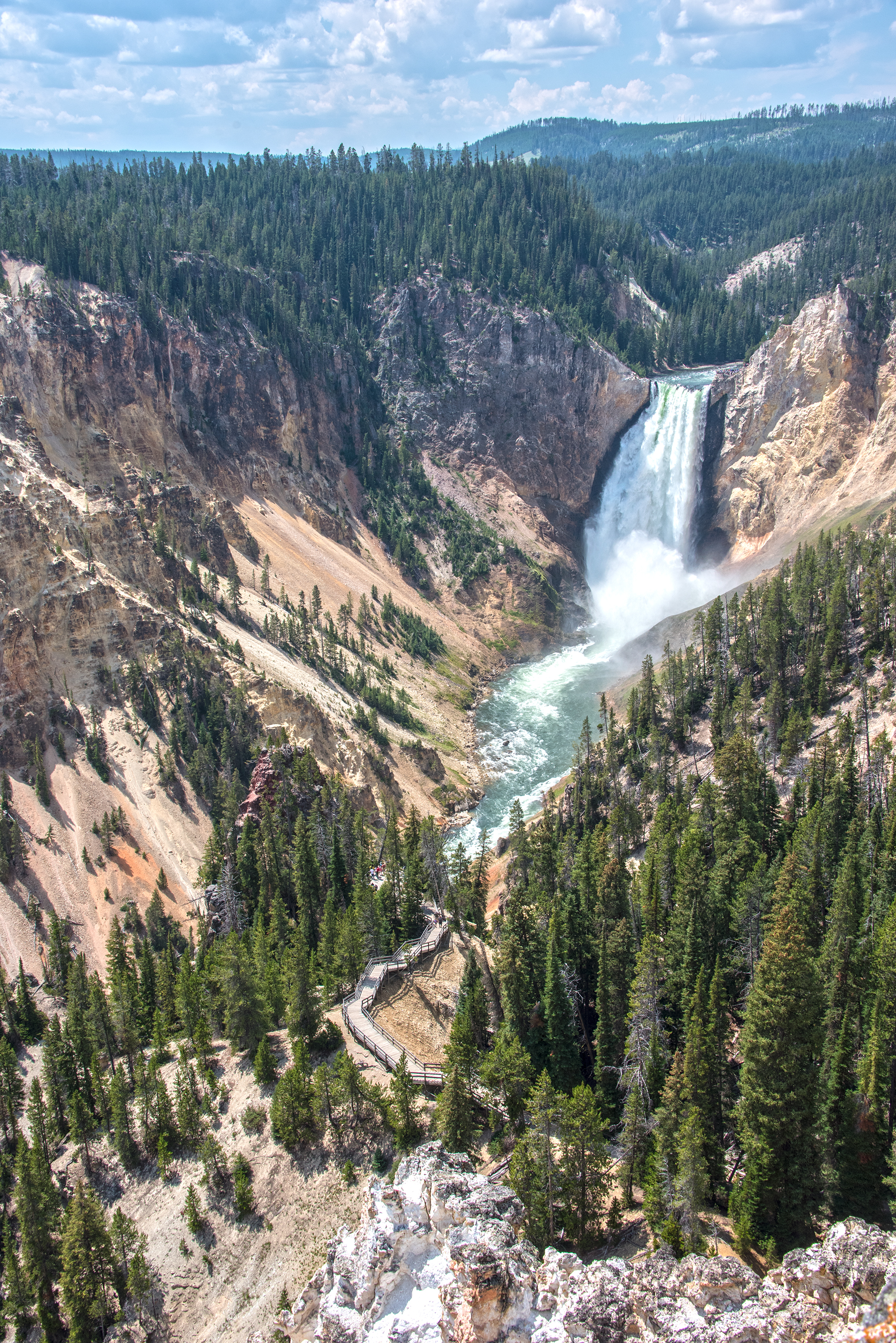 Lower Falls, Grand Canyon of the Yellowstone